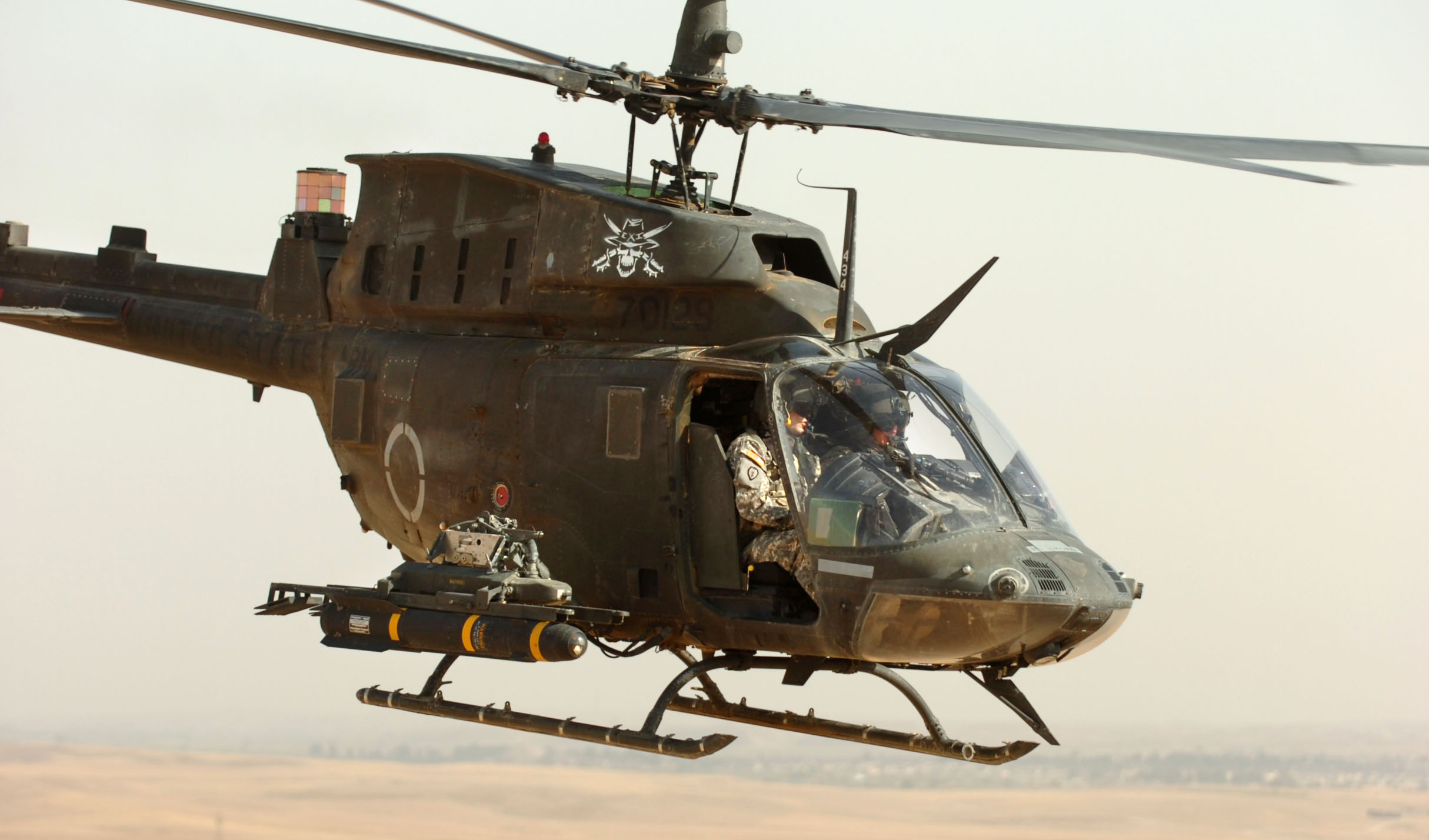 Armed with Hellfire missiles, Col. A.T Ball, the 25th Combat Aviation Brigade Commander flies a Kiowa (OH-58) in a mission in the area of Kirkuk, Iraq. The 25th CAB provides air support for ground forces throughout most of Iraq.